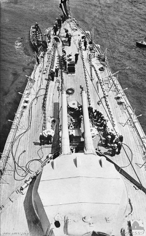 AWM caption : "VIEW FROM THE FOREMAST OF THE FORWARD 12 INCH GUN TURRET AND FORECASTLE OF THE BATTLE-CRUISER HMAS AUSTRALIA (I). AN ANCHOR PARTY WORKS AT THE CAPSTAN AS THE SHIP'S WHALER COMES ALONGSIDE."